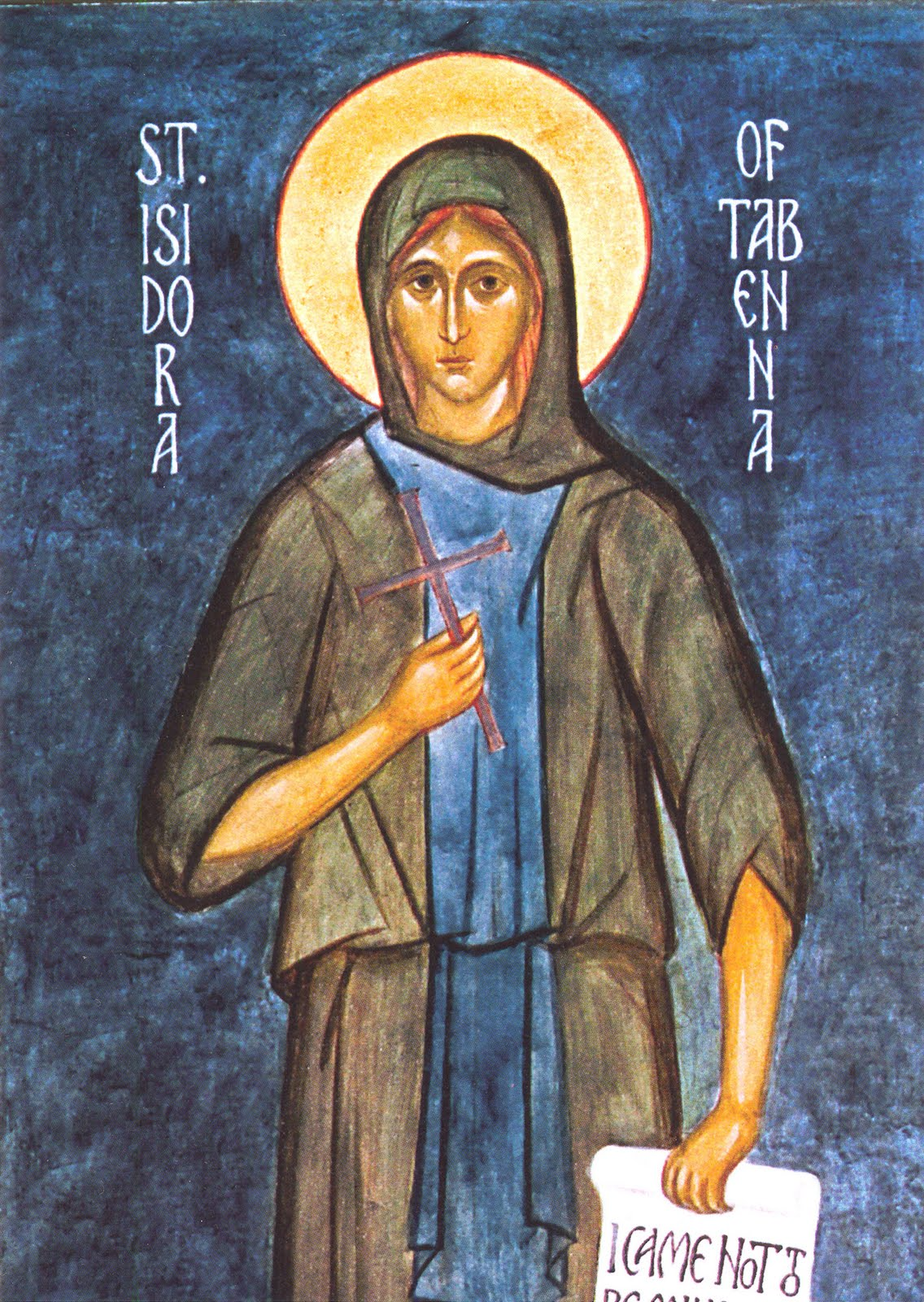 Image of the Blessed St Isidora of Tabenna